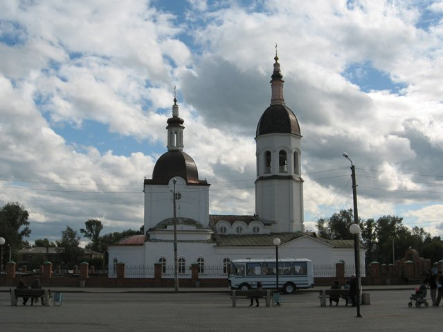 Kansk - Sobor